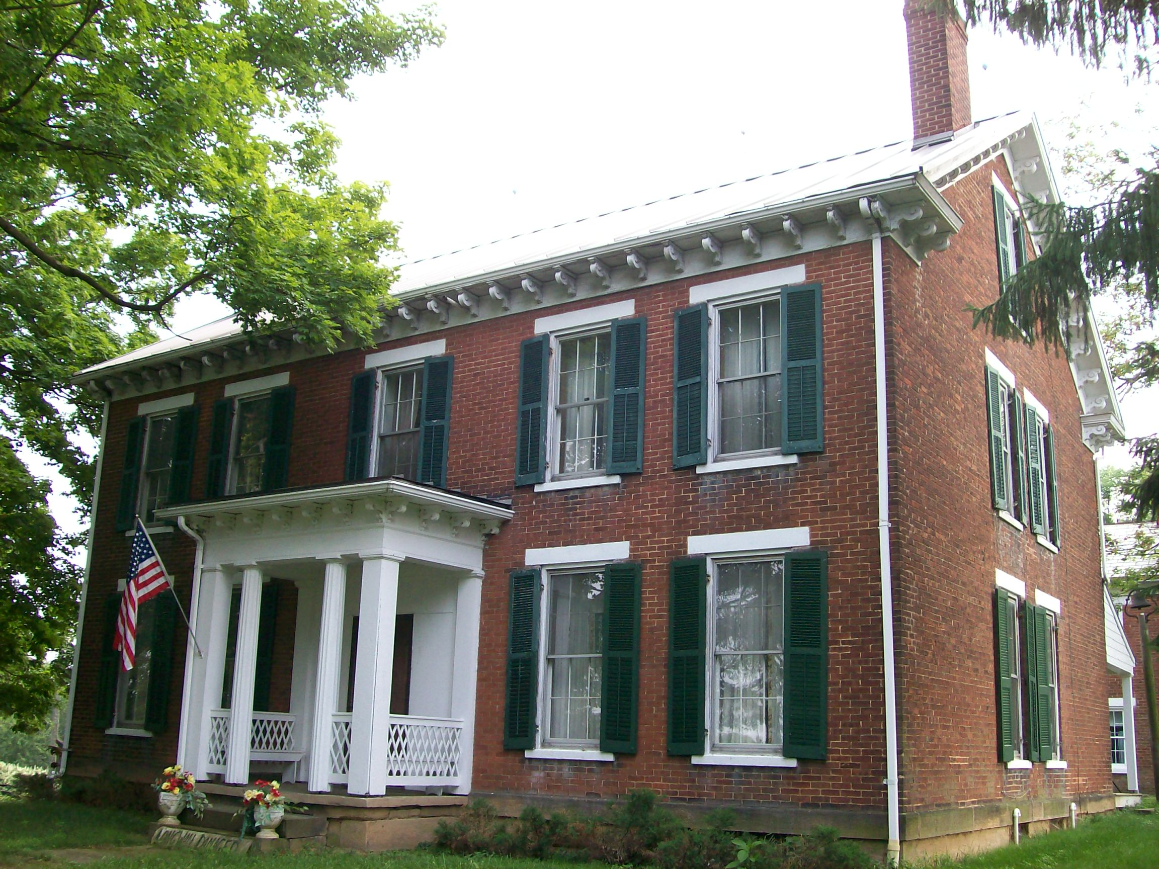 The James Kinney Home southeast of Belmont, Ohio